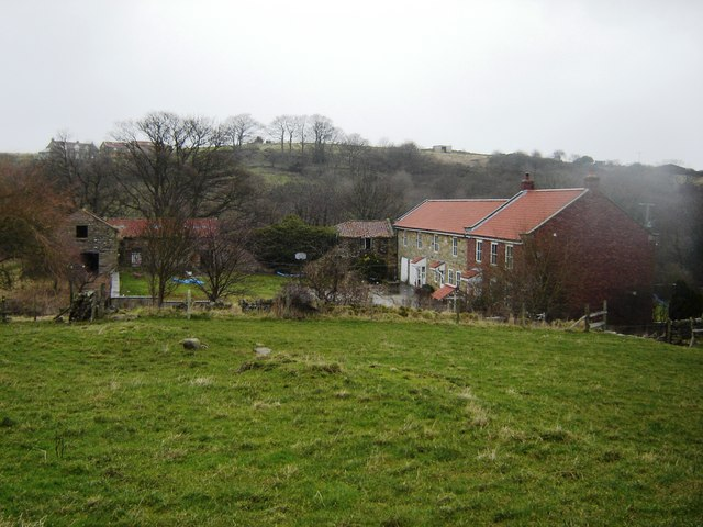 Source page description says: Calfthwaite Farm. Crowden, nr Staintondale, North Yorkshire, England.